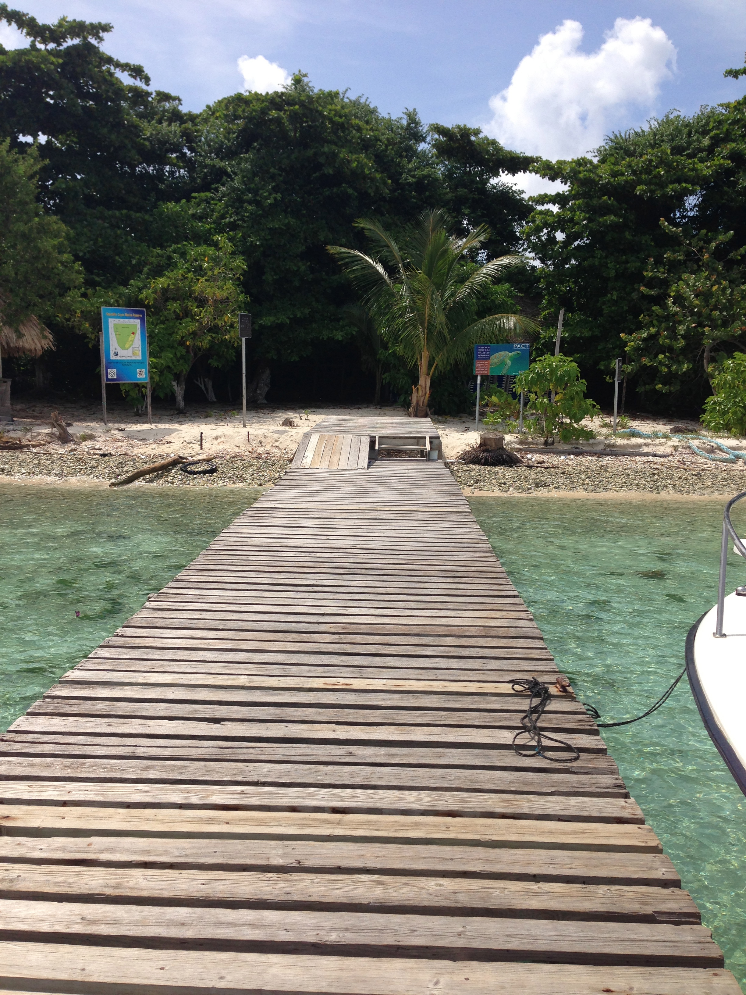 Dock of Sapodilla Caye - marine reserve.